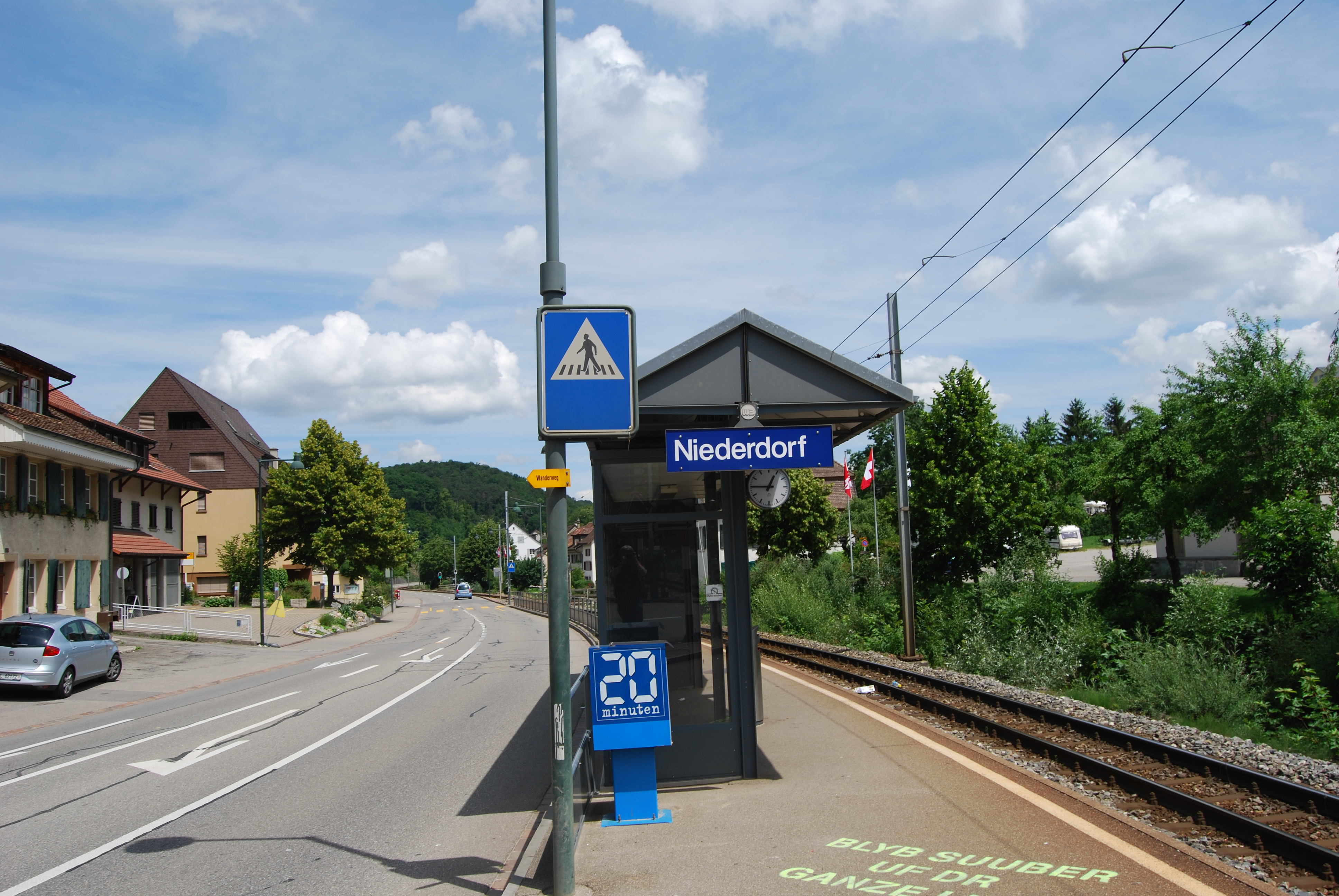 Niederdorf, canton of Basel-Country, Switzerland